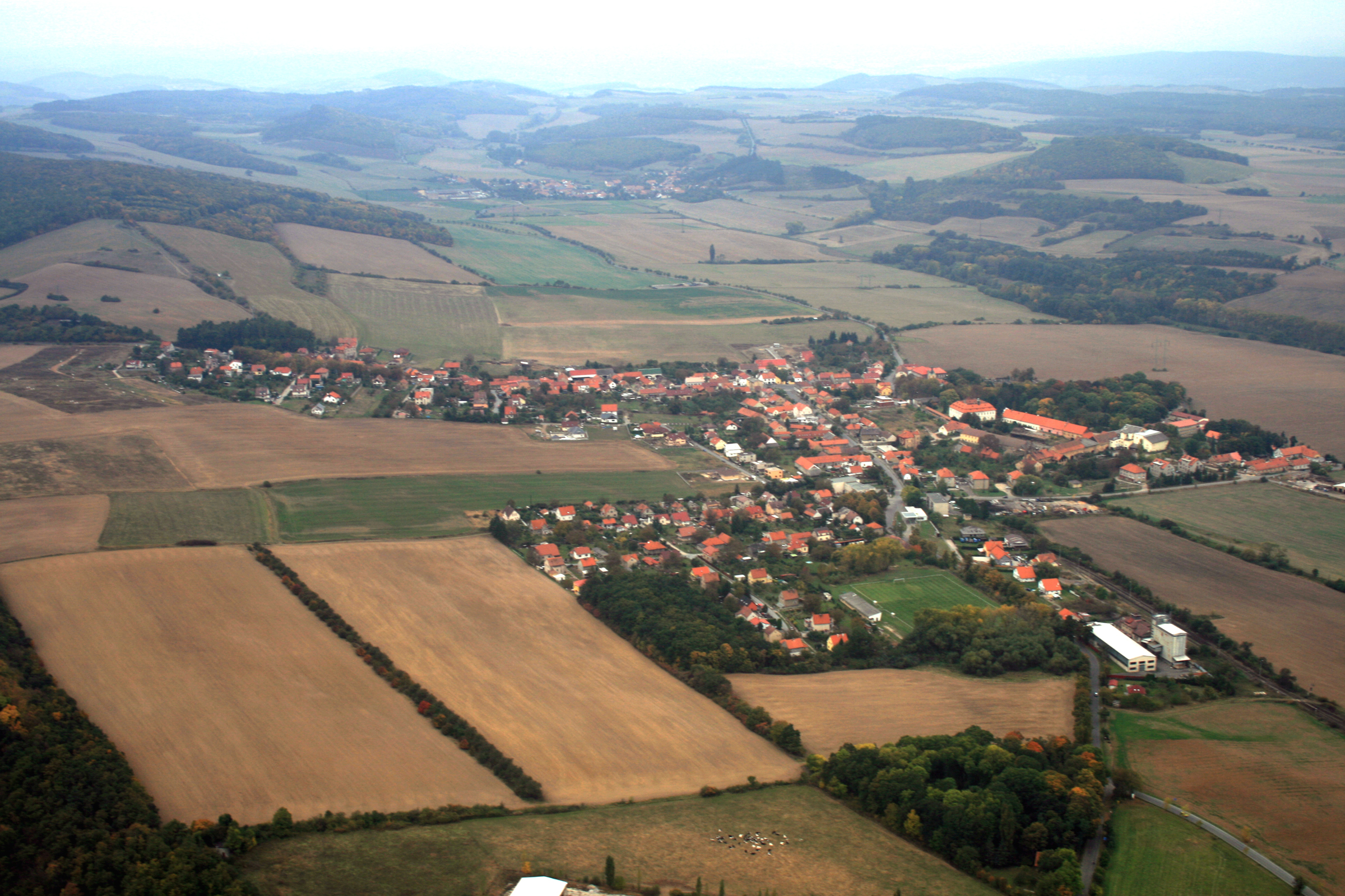 Air photo of small town Liteň, in central Bohemia, Czech Republic.